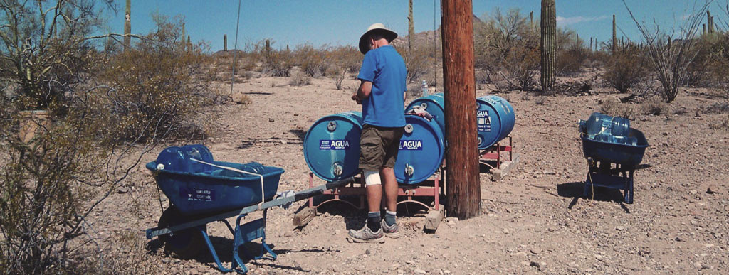 A volunteer from the Humane Border group is refilling water stations located on the desert of the U.S.-Mexico border.